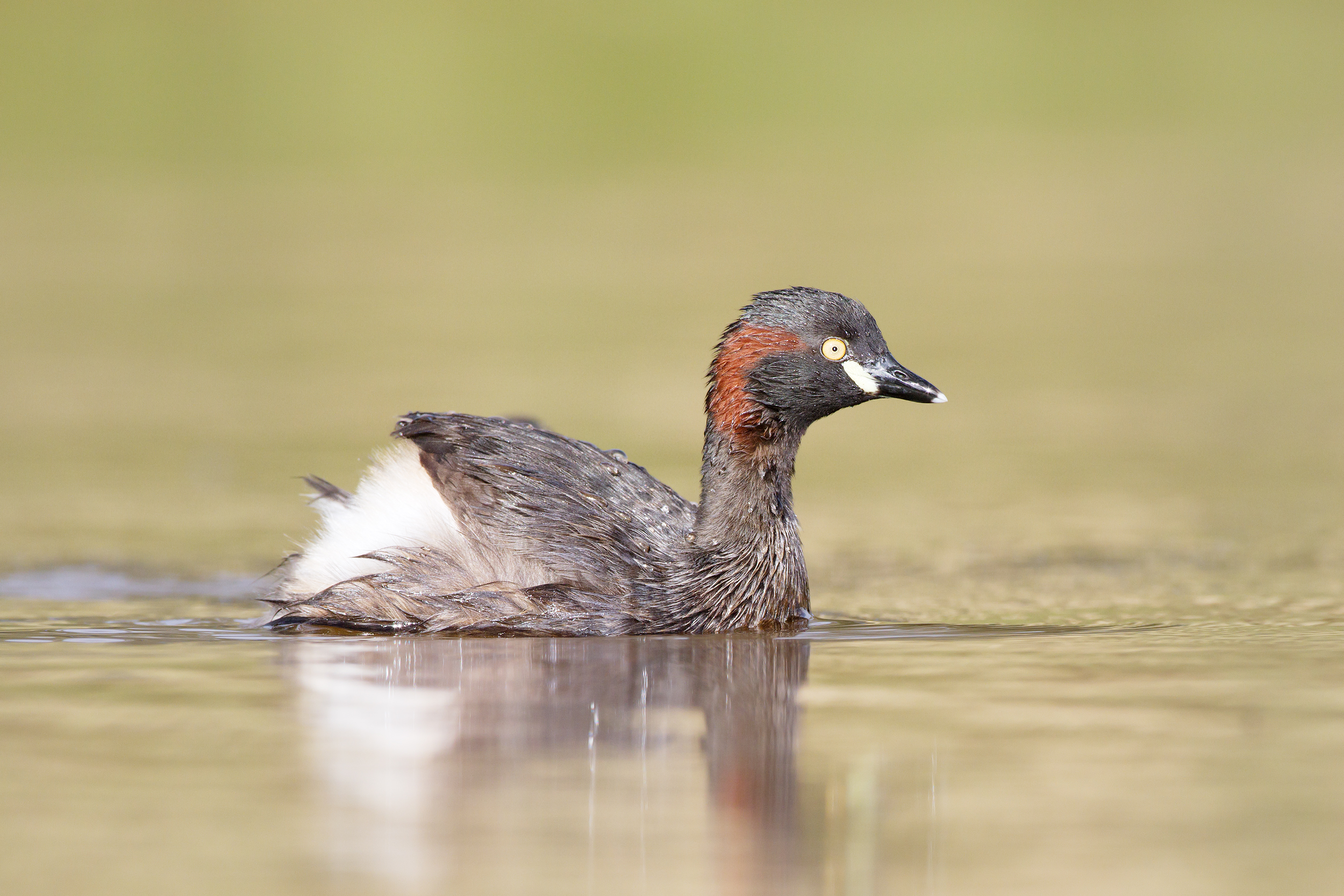 Australasian Grebe (Tachybaptus novaehollandiae), Mulligan Flat Nature Reserve, Australian Capital Territory, Australia